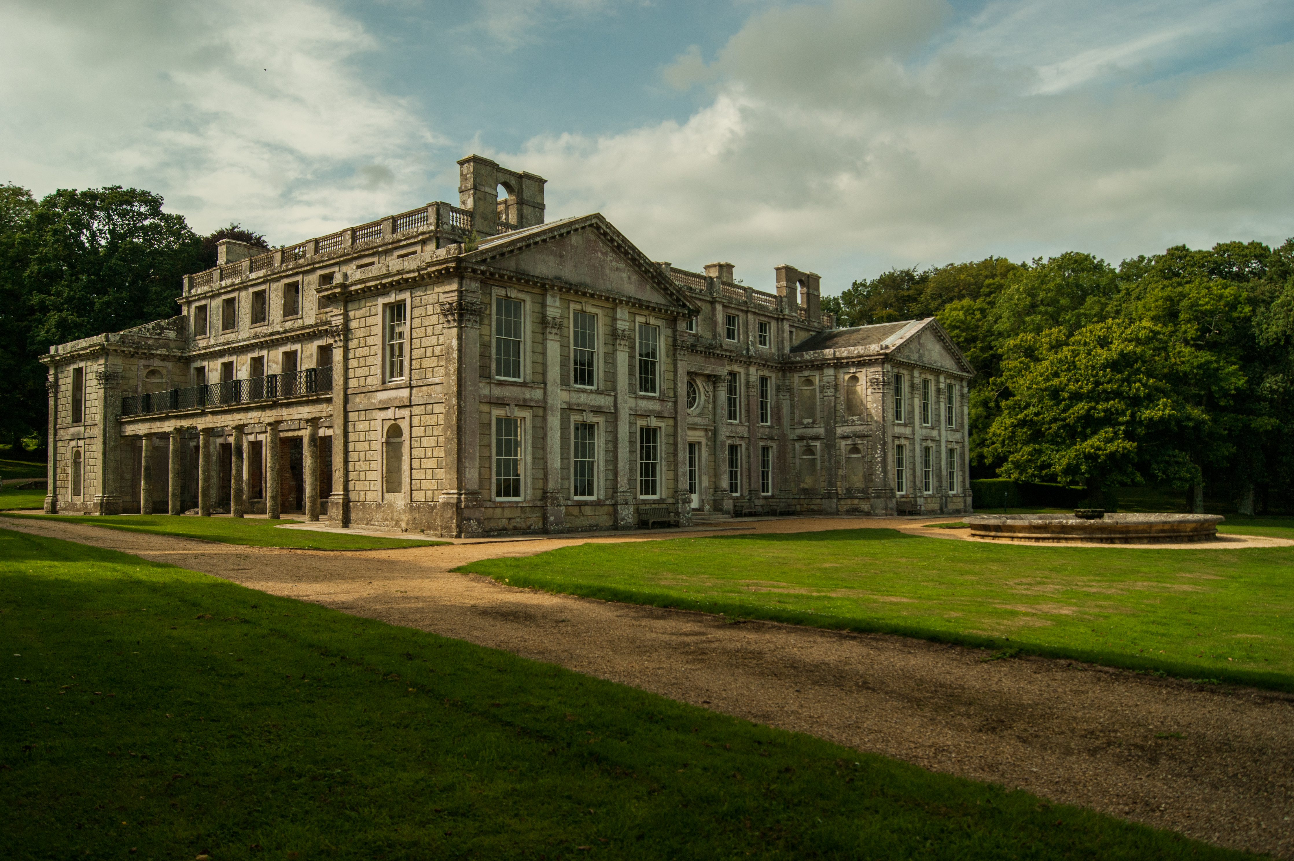 Appuldurcombe House SE view